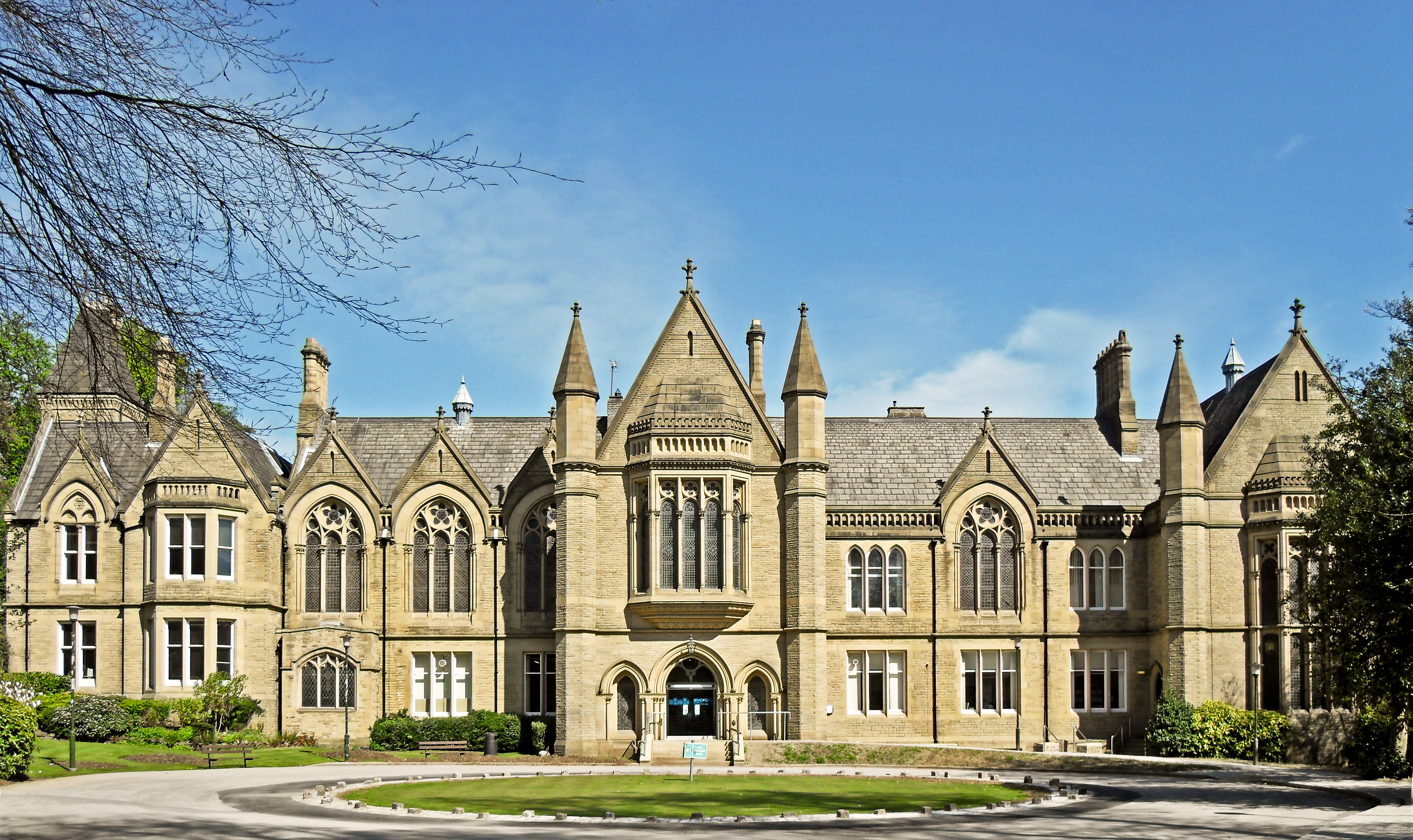 The former home of the University of Bradford school of management until 2019. The building on Emm Lane, Bradford was built as the Congregationalist Airedale College in 1874-1877, becoming the United Independent College in 1888, then later part of the Unversity of Bradford. Taken on Tuesday the 4th of May 2010.